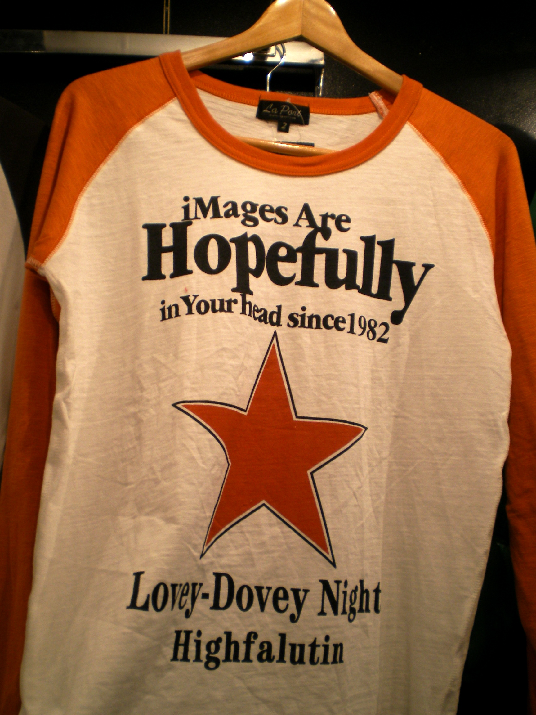 A T-shirt in Kyoto in 2008, with "Engrish" text (incomprehensible English added for fashion purposes).